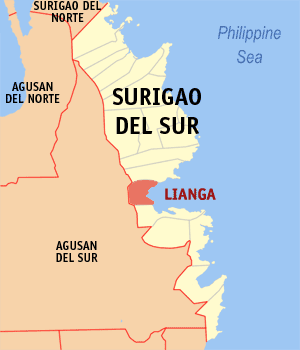 Map of the Surigao del Sur showing the location of Lianga